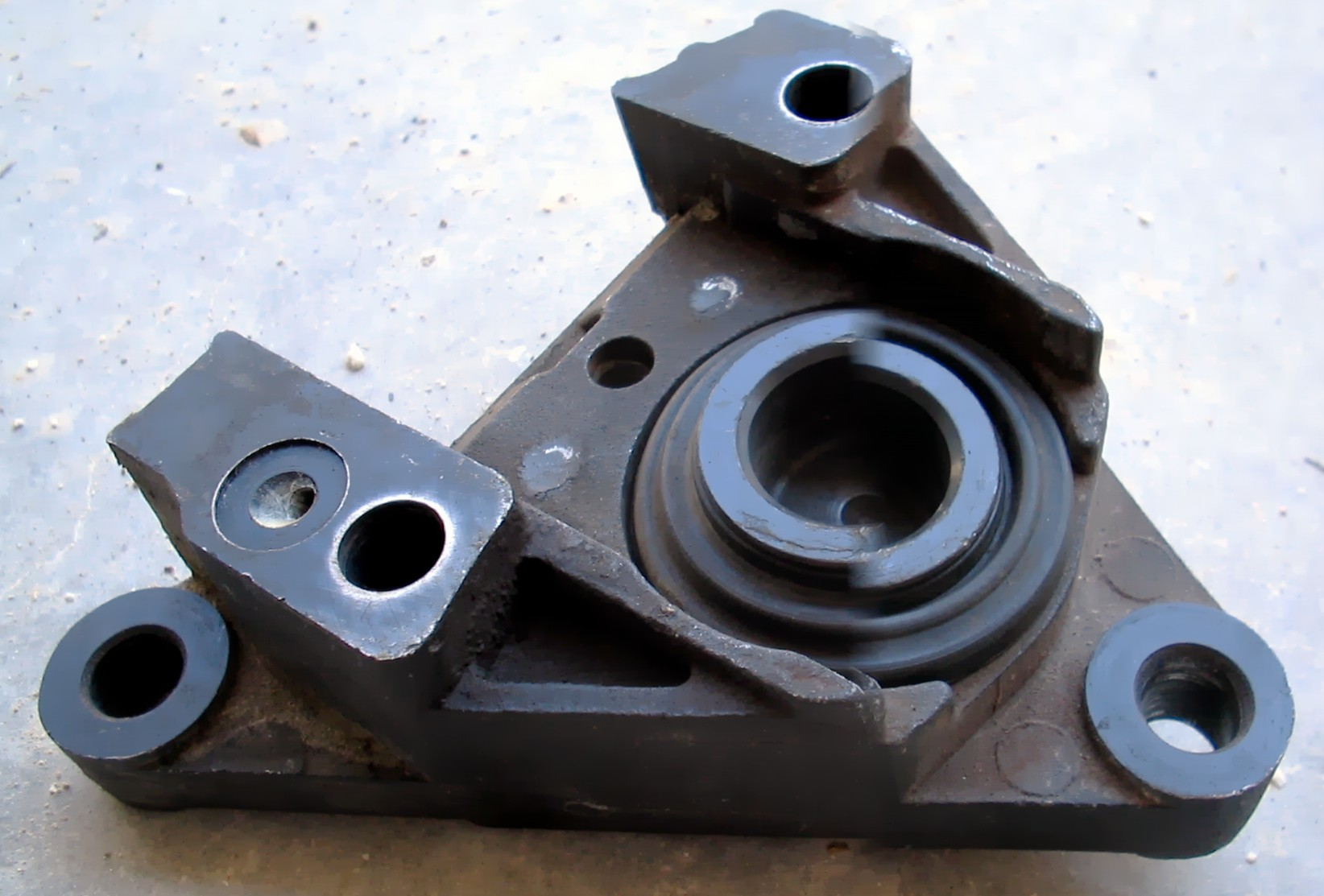 Half-shell of a brake caliper sets equipped with a dustImage given by the fusion of two photos, with piston operated and off.